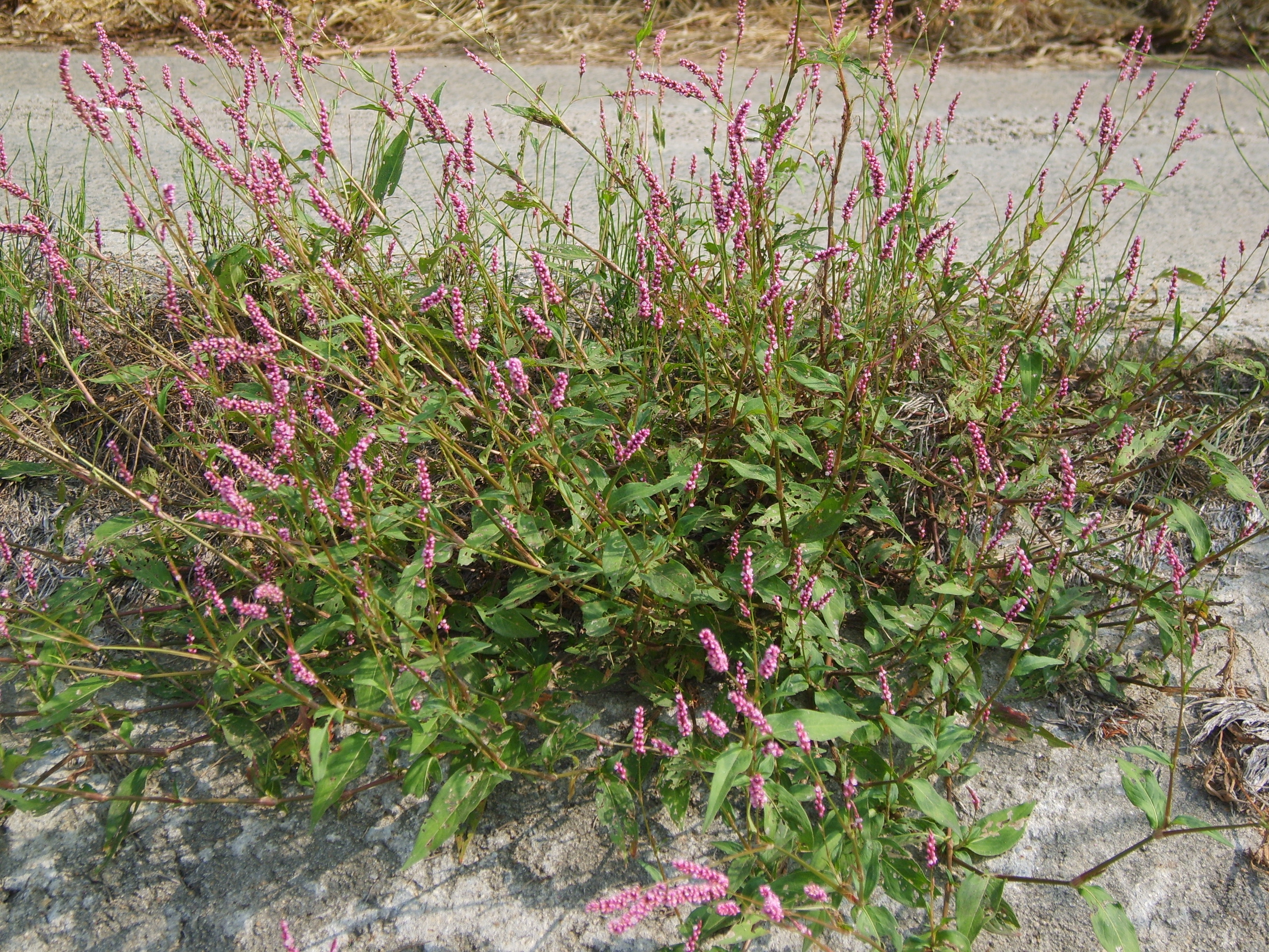 Polygonum longisetum